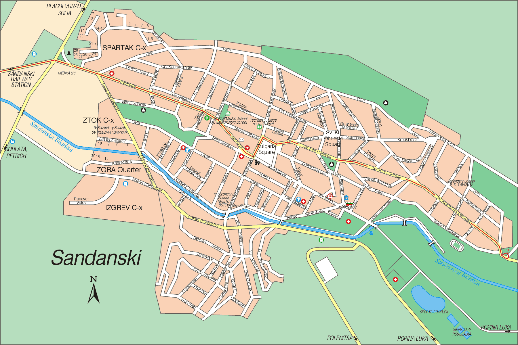 Map of Sandanski.